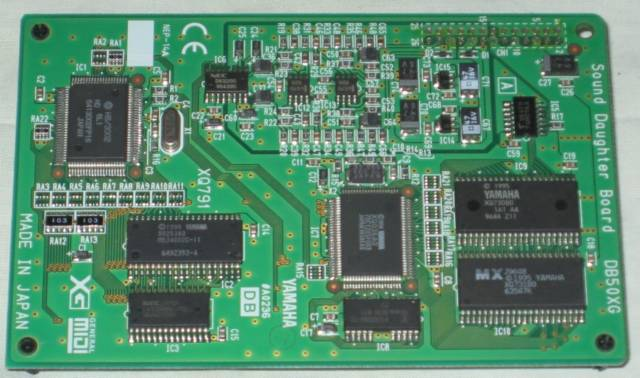 Yamaha DB50XG Sound Daughter Board (top).PowerWAVE 50 XG. The Audio Dynamics DMI 50 is a dual MIDI interface for the Acorn A5000 and Risc PC. In addition to MIDI the DMI50 offers 16bit CD quality sampling capabilities. There are 5 variations: DMI 50 - Dual MIDI interface. PowerWAVE 50 XG - Dual MIDI interface + Yamaha Wave table Synthesis. DMI50-S - Dual MIDI Interface + 16bit sampling and mixing. PowerWAVE 50 XG-S - Dual MIDI interface + Yamaha Wave table Sythesis + 16 bit sampling and mixing. Control Sampler - 16bit sampling and mixing.